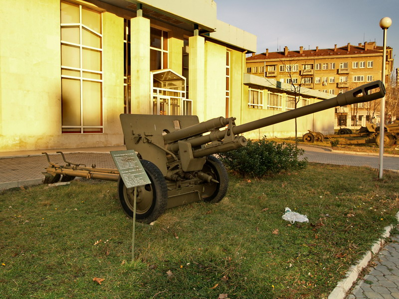 The National Museum of Military History, Sofia, Bulgaria.The 76-mm divisional gun M1942 (ZiS-3)